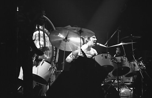 The WHO, MLG,Toronto, 10/21/76